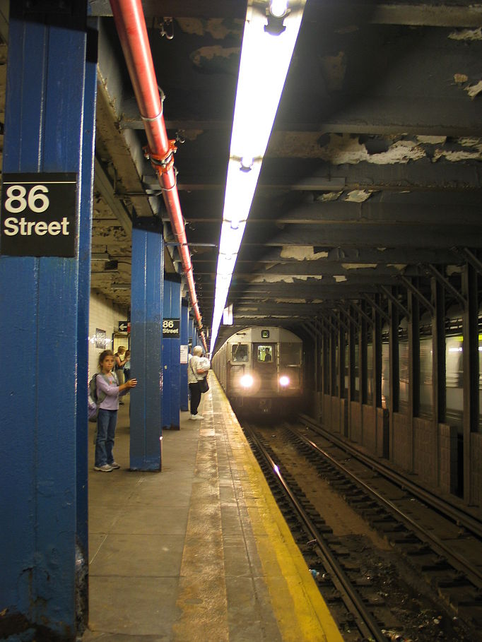 C train approaching 86th Street Station in the Upper West Side, New York, USA.